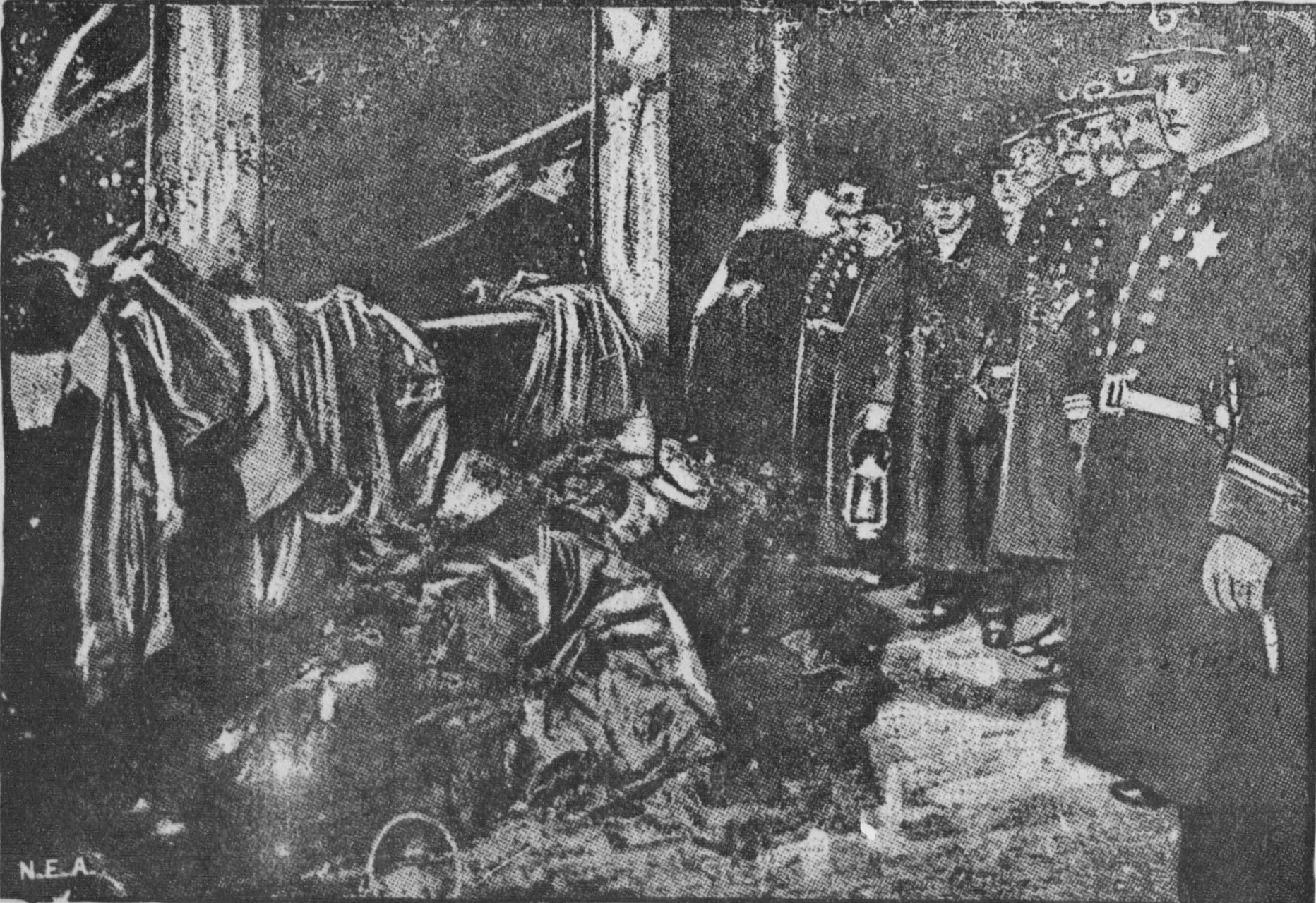 In the aftermath of the 1904 Iroquois Theatre fire, members of the Chicago Police Department guard the bodies of some of the victims.